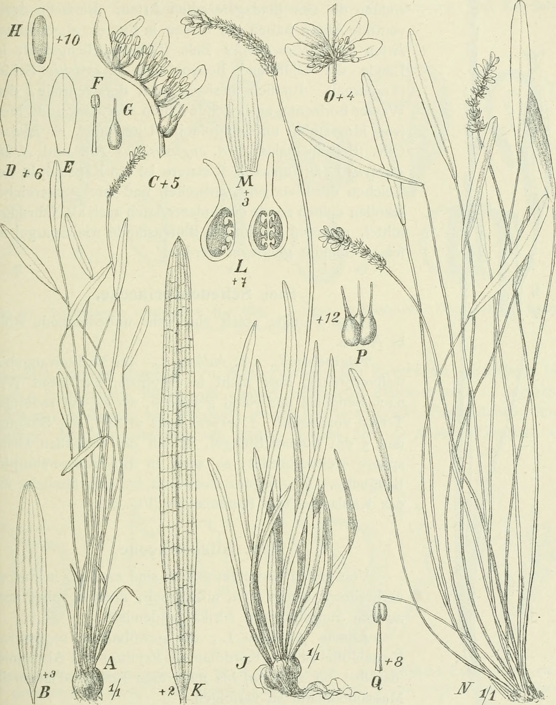 Title: Die Pflanzenwelt Afrikas, insbesondere seiner tropischen Gebiete : Grundzge der Pflanzenverbreitung im Afrika und die Charakterpflanzen Afrikas Year: 1910 (1910s) Authors: Engler, Adolf, 1844-1930 Subjects: Botany Publisher: Leipzig : W. Engelman Text Appearing Before Image: Helobiae. — Aponogetonaceae. 101 Im nördlichen Deutsch-Ostafrika, in Usinga, "entdeckte Stuhlmann den A. Stiihlmannii Engl. (Fig. 91 N-Q)^ welcher sich den indischen ähnlich verhält. Text Appearing After Image: Fig. 91. A—H Aponogeton gracilis Schinz. H Same. J—M A. vallisnerioides Bak. Ä'—Q A. Stuhlmannii En?l. Blütenstände mit zwei- bis mehrcylindrischen Ähren haben A. leptostachyms E. Mey. (Nordostafrika, Erythrea bis Gallaland, Transvaal bis Kapland), A. nata- lensis Oliv. (Natal), A. Boehmii Engl. (Unjamwesi), A. Dmteri Engl, et Krause